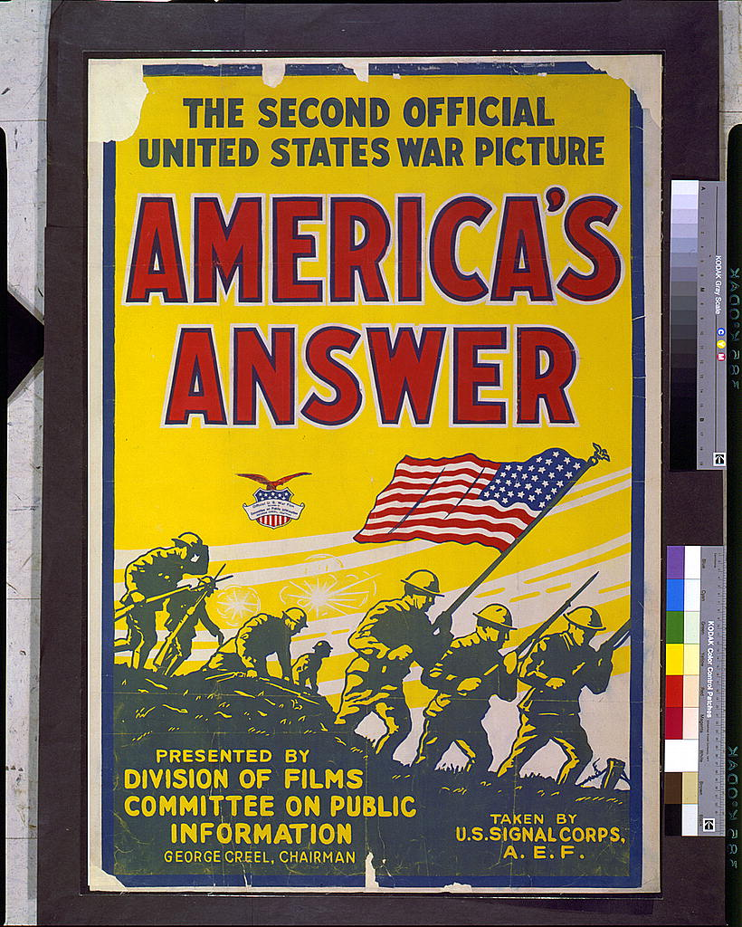 Title: America's answer. The second official United States war picture Abstract/medium: 1 print (poster) : color.